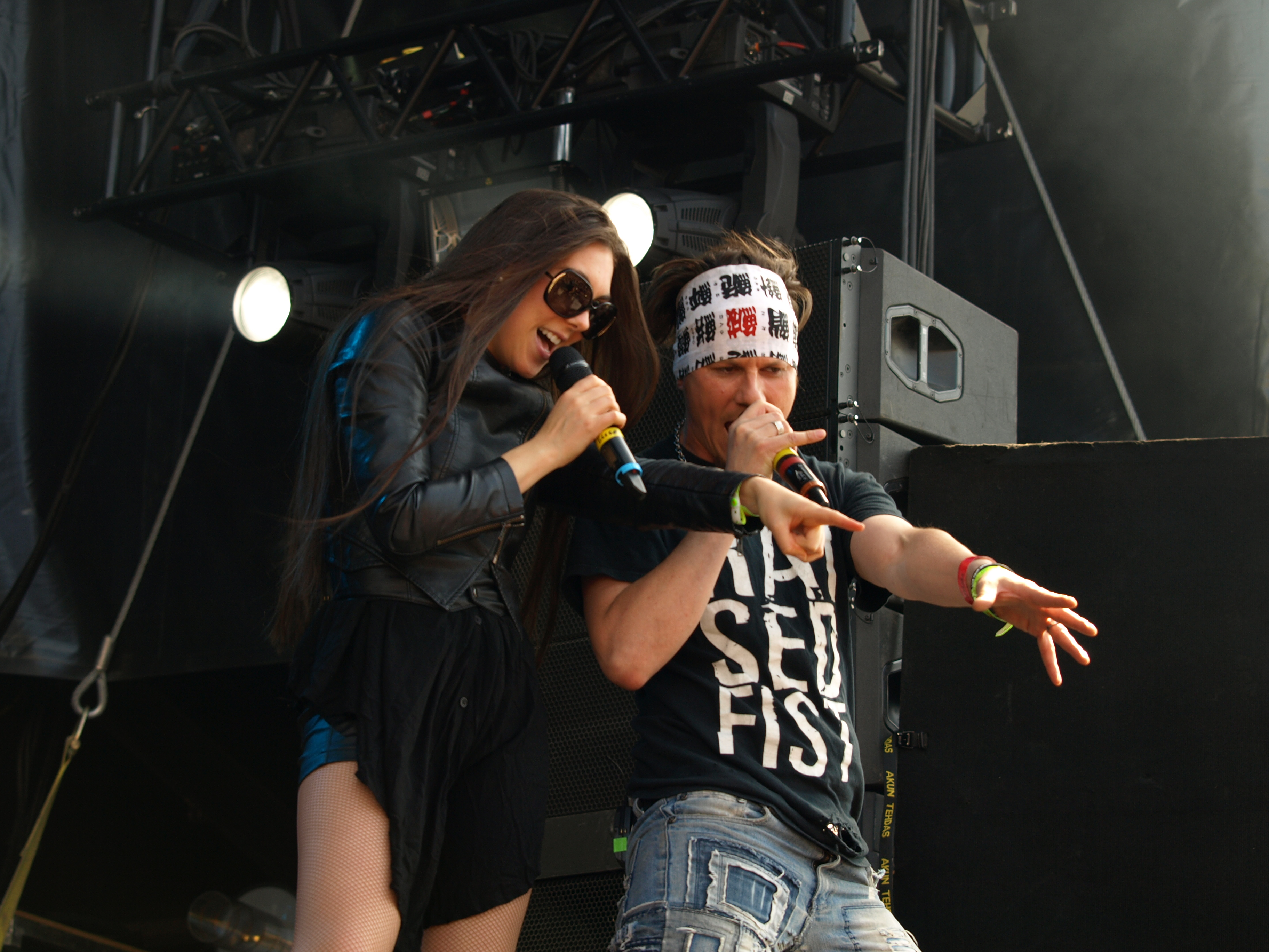 Swedish band Amaranthe at Tuska Open Air 2013